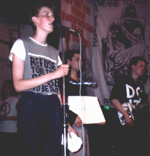 Musical group Chumbawumba playing at the Luton Library.